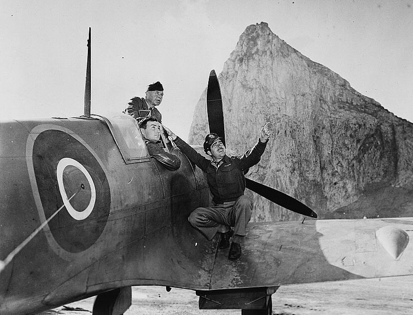 USAAF pilots with an RAF Supermarine Spitfire at Gibraltar in 1942. Original caption: "United States Army Air Force men in a Spitfire observing the performance of another one in flight. Left to right: they are Colonel Harold B. Willis, Boston, Massachusetts, Major Marvin L. McNickle, Doland, South Dakota, and Captain A. E. Vinson of Monticello, Mississippi."